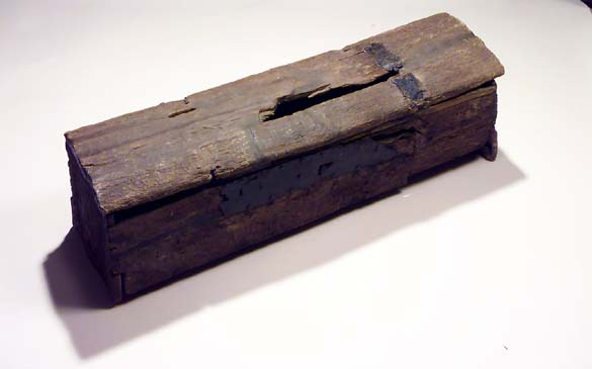 Camera: DCS315C Serial #: K315C-02225 Width: 1520 Height: 1008 Date: 1-03-30 Time: 14.19.11 DCS3xx Image FW Ver: 1.3.2 TIFF Image Look: Product Counter: [7647] 7 Min Aperture: f22 Exposure Mode: Manual (M) Compensation: -0.5 Flash Compensation: +0.0 Meter Mode: Center-Weight Flash: None Drive Mode: Single Focus Mode: AF-S/Wide Self-timer: No Focal Length (mm): 19.9 Lens Type: Gen 3 D-Type AF Nikkor or IX Focus Distance (m): 1.12